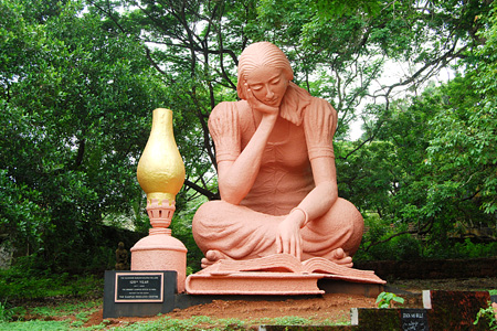 ചിന്താശില്പം. വൈക്കം മുഹമ്മദാ ബഷീറിന്റെ നോവലിലെ ഒരു കഥാപാത്രം. പണിതതു് കാനായി കുഞ്ഞിരാമന്റെ നേതൃത്വത്തില്‍.